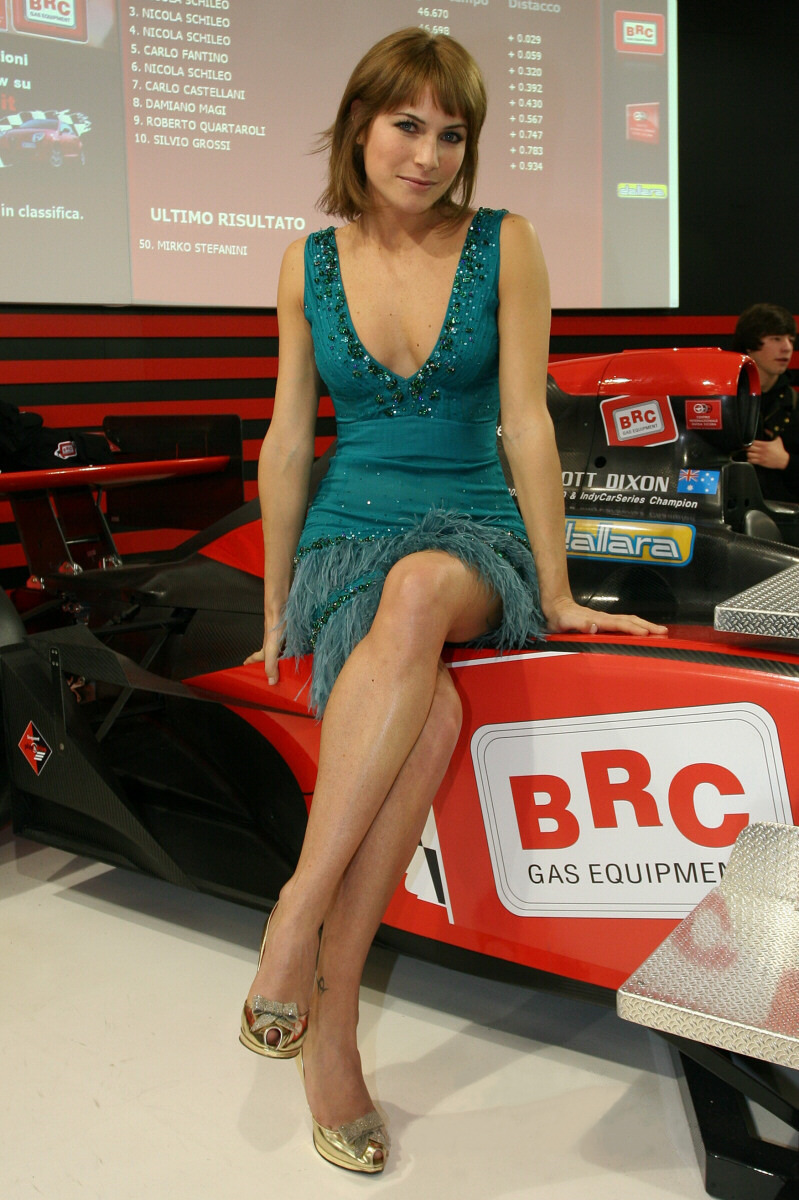 Former Miss Italy 2002 Eleonora Pedron